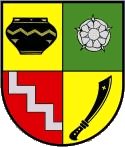 Coat of arms of Dünfus